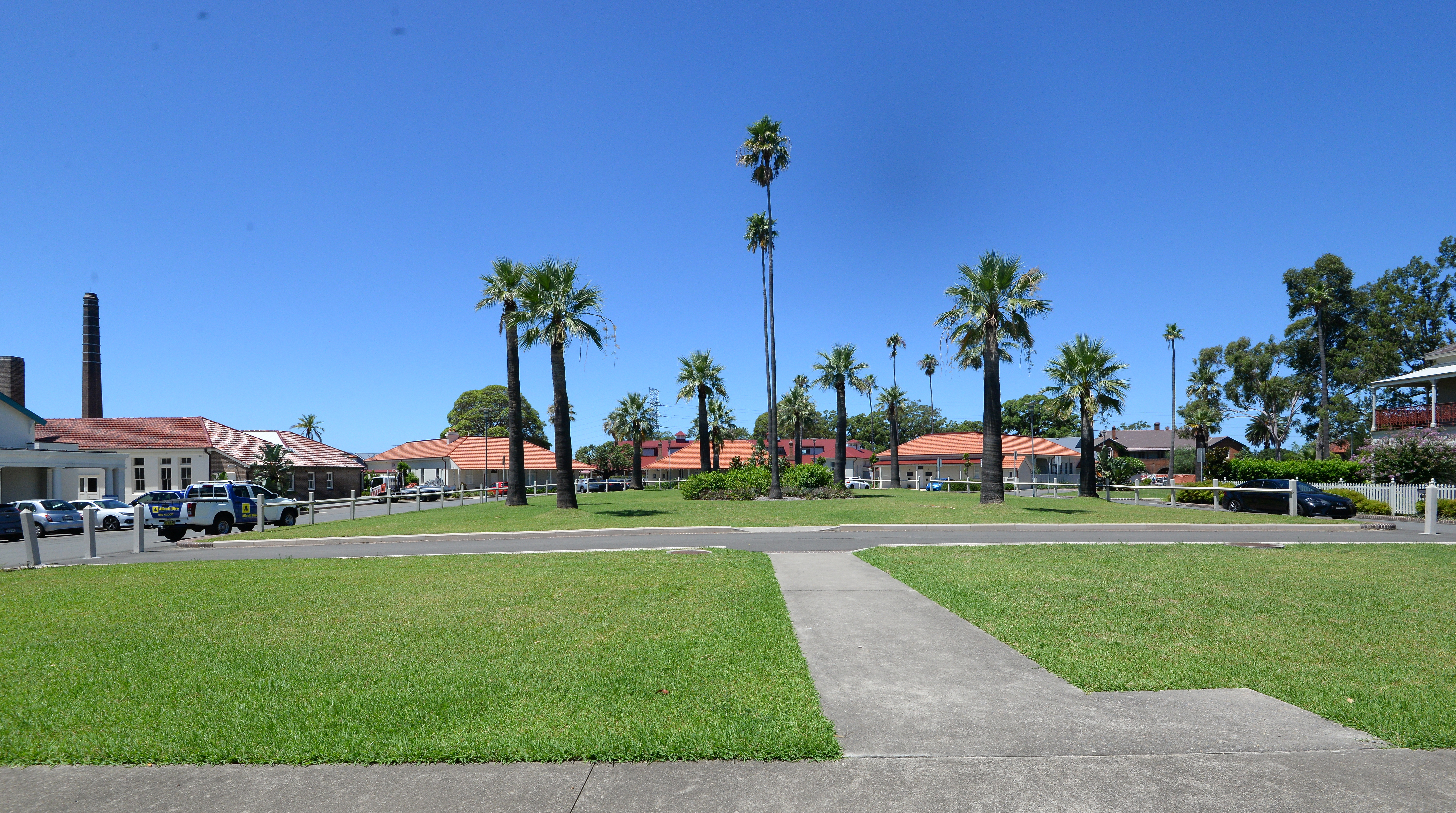 Village Green, former Lidcombe Hospital, Lidcombe, Sydney